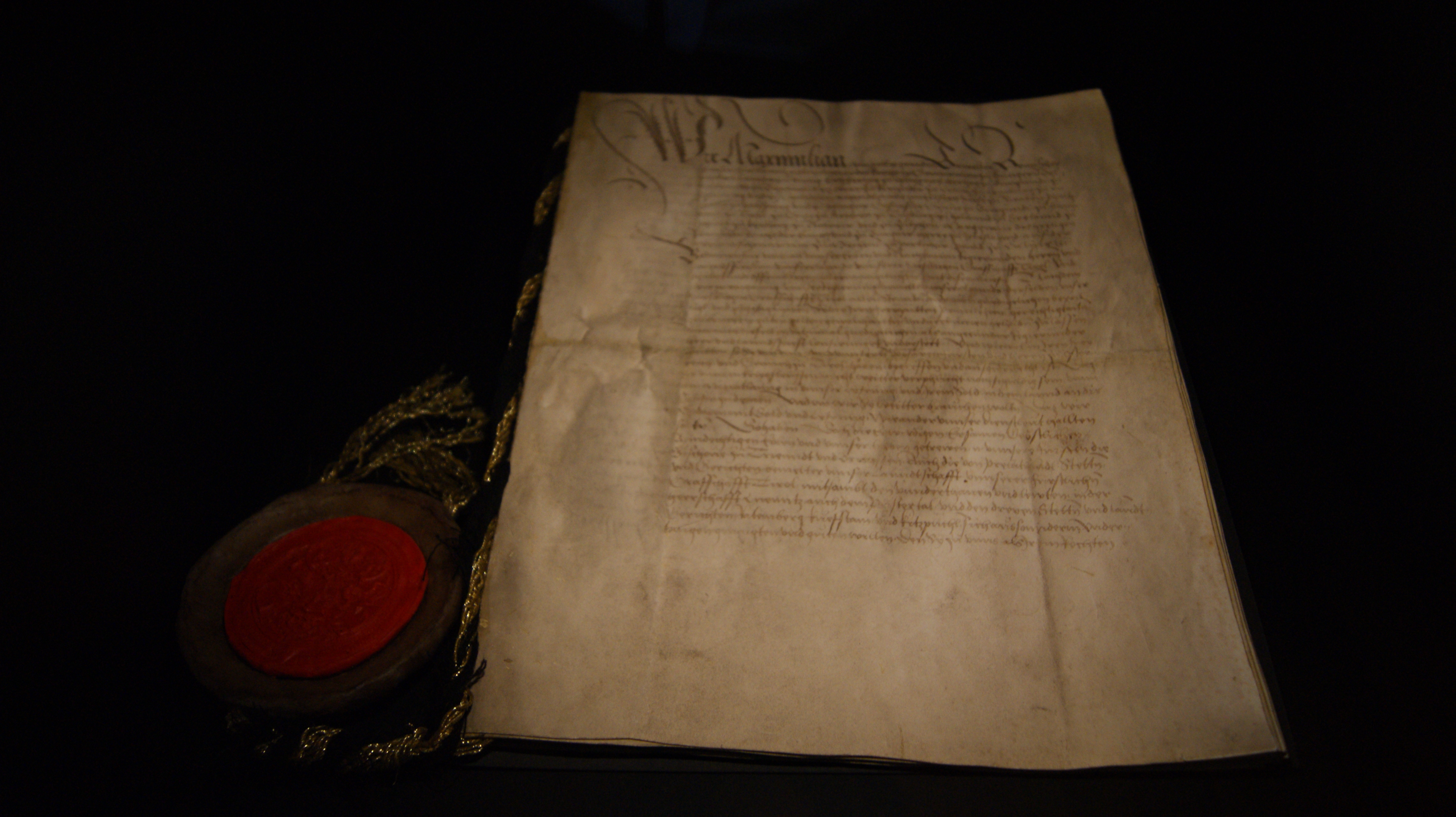 Landlibell of Emperor Maximilian I of 1511. Part of the Tyrolean Constitution.